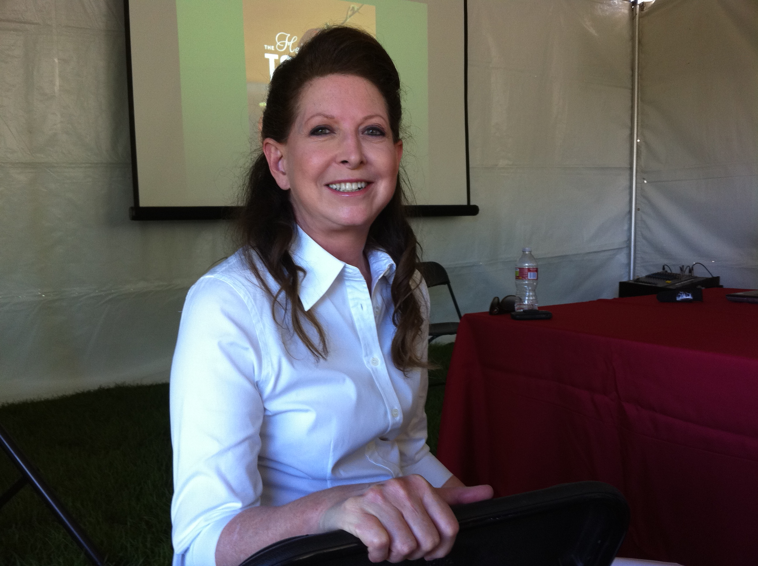 Amy P Goldman at the Heirloom Tomato Festival 2010